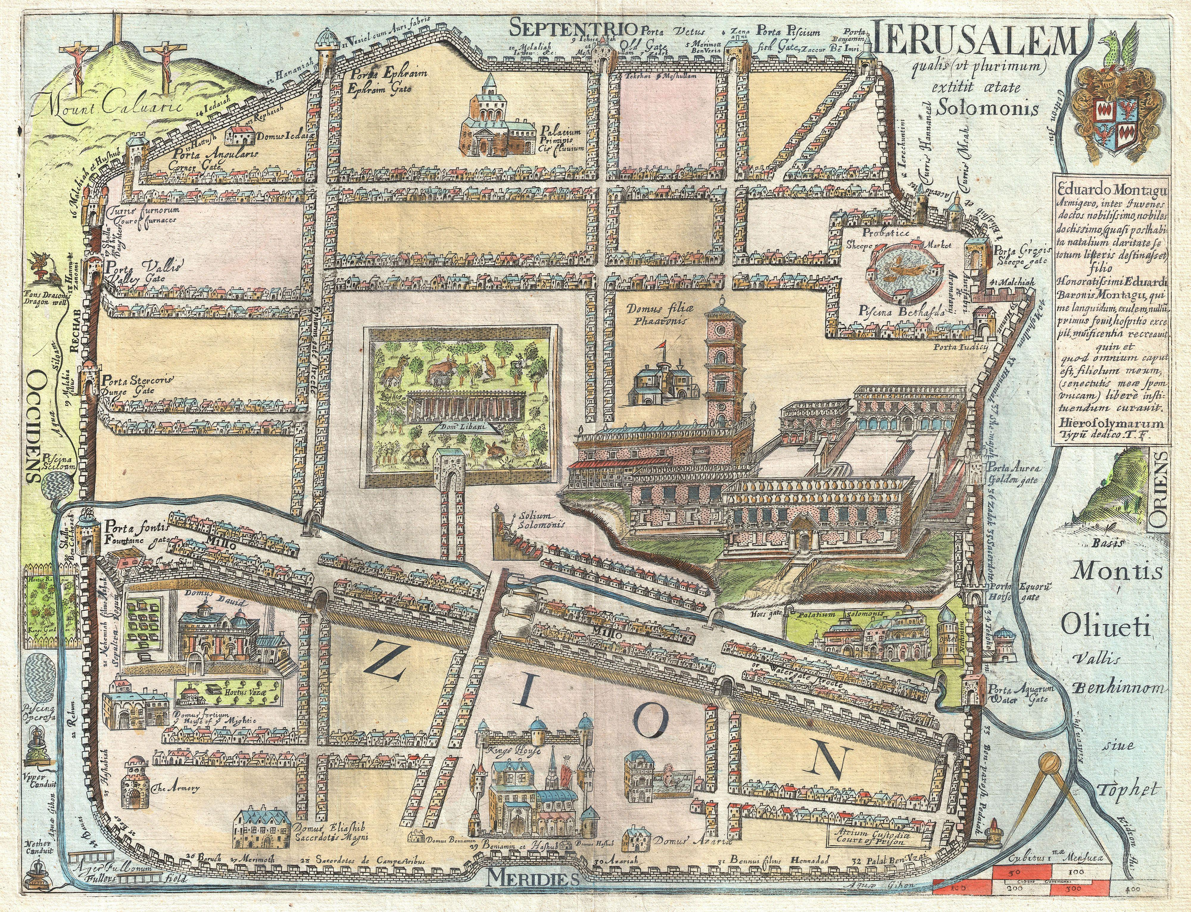 An extremely rare and altogether fascinating 1650 map of Jerusalem by Thomas Fuller. Depicts the old walled city of Jerusalem during the reign of the Biblical King Solomon, ca. 961-922 BC. On the whole this is a highly imaginative map of the city and likely bears no significant resemblance to the Jerusalem of Solomon. Solomon's Temple appears at the right center with a tall bell tower and a highly Renaissance European design aesthetic. At the center, roughly where the Church of Holy Sepulture is located today, is Solomon's menagerie. The Baths of Bethesda, in which an angel swims, appear in the upper right, approximately where they are said to be today. Other sites of note include Domus David near the modern day Jaffa Gate, the armory in the lower left, the Kings House at bottom center, Solomon's throne near the menagerie at center, the golden gate at right center, etc. Throughout the streets are arranged with an uncanny geometric precisions. Outside the walls Fuller identifies the Mount of Olives (Montis Oliueti), the Dragon Well, the Fullers Field, the King's Garden, and despite purportedly being a map of Solomon's Jerusalem, the Crucifixion on Calvary. A armorial crest and a dedication to Eduardo Montagu, or Edward Montagu, the First Earl of Sandwich, appears in the upper right quadrant. Engraved by John Williams for the 1650 first edition of Thomas Fuller's A Pisgah-sight of Palestine . This map is exceptionally rare and an important addition to any serious Israel - Palestine - Holy Land collection. We have found no record of it appearing on the market in the last 10 years.